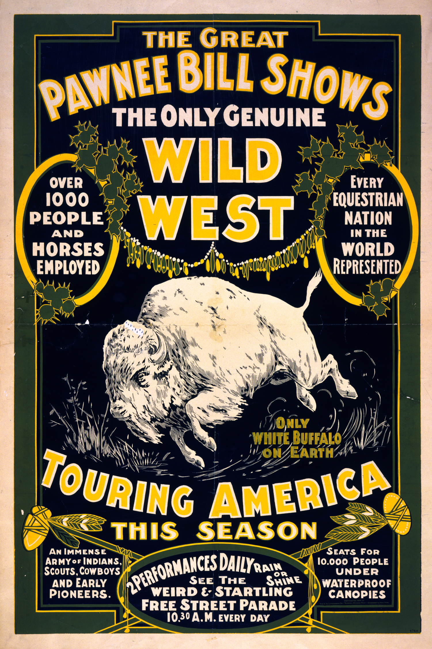 The Great Pawnee Bill Shows lithograph.